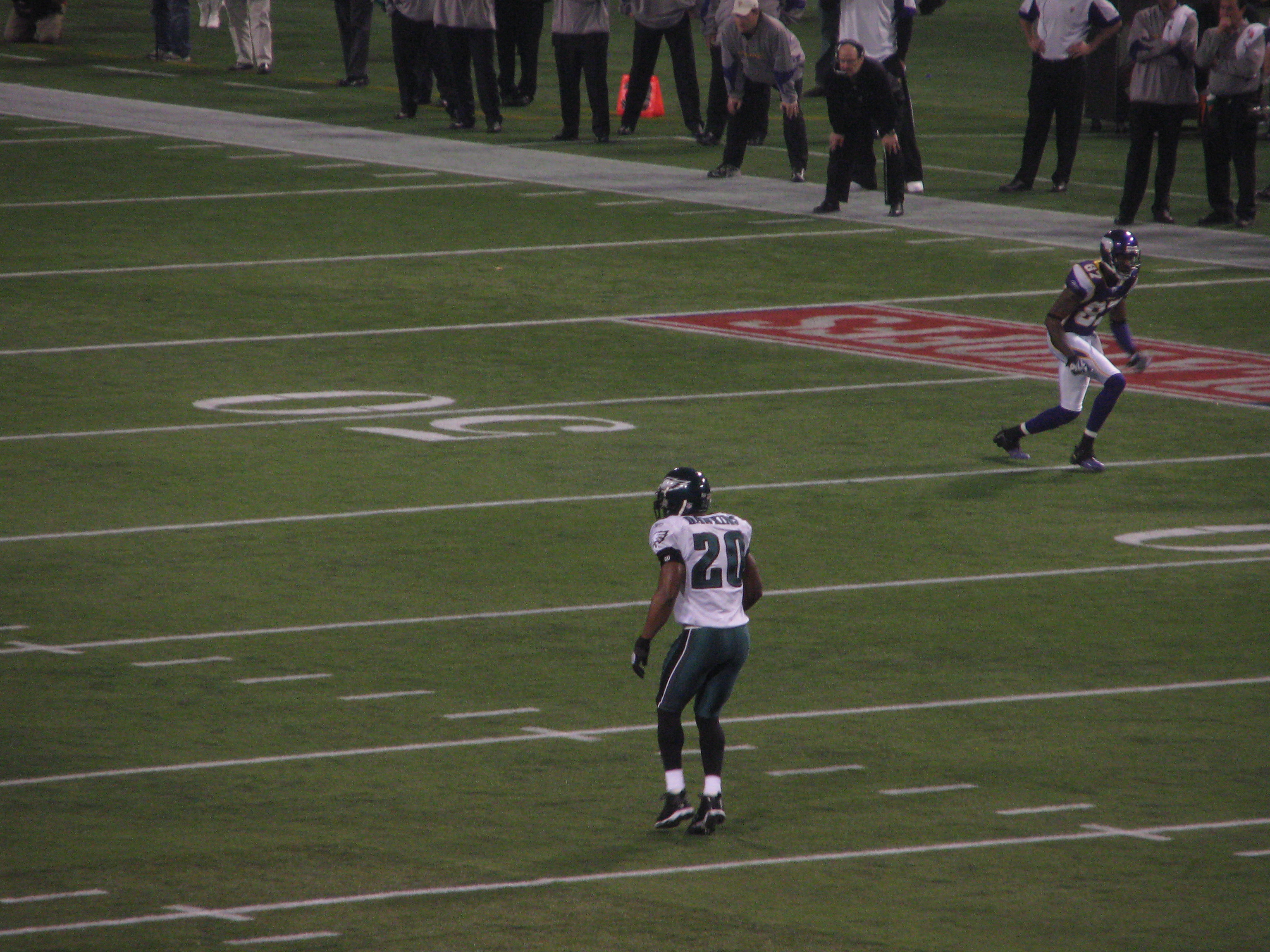 Brian Dawkins in 2009 NFC Wild Card Game